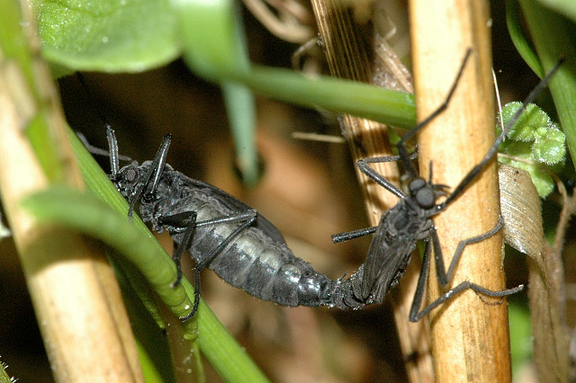 Penthetria funebris from Commanster, Belgian High Ardennes .